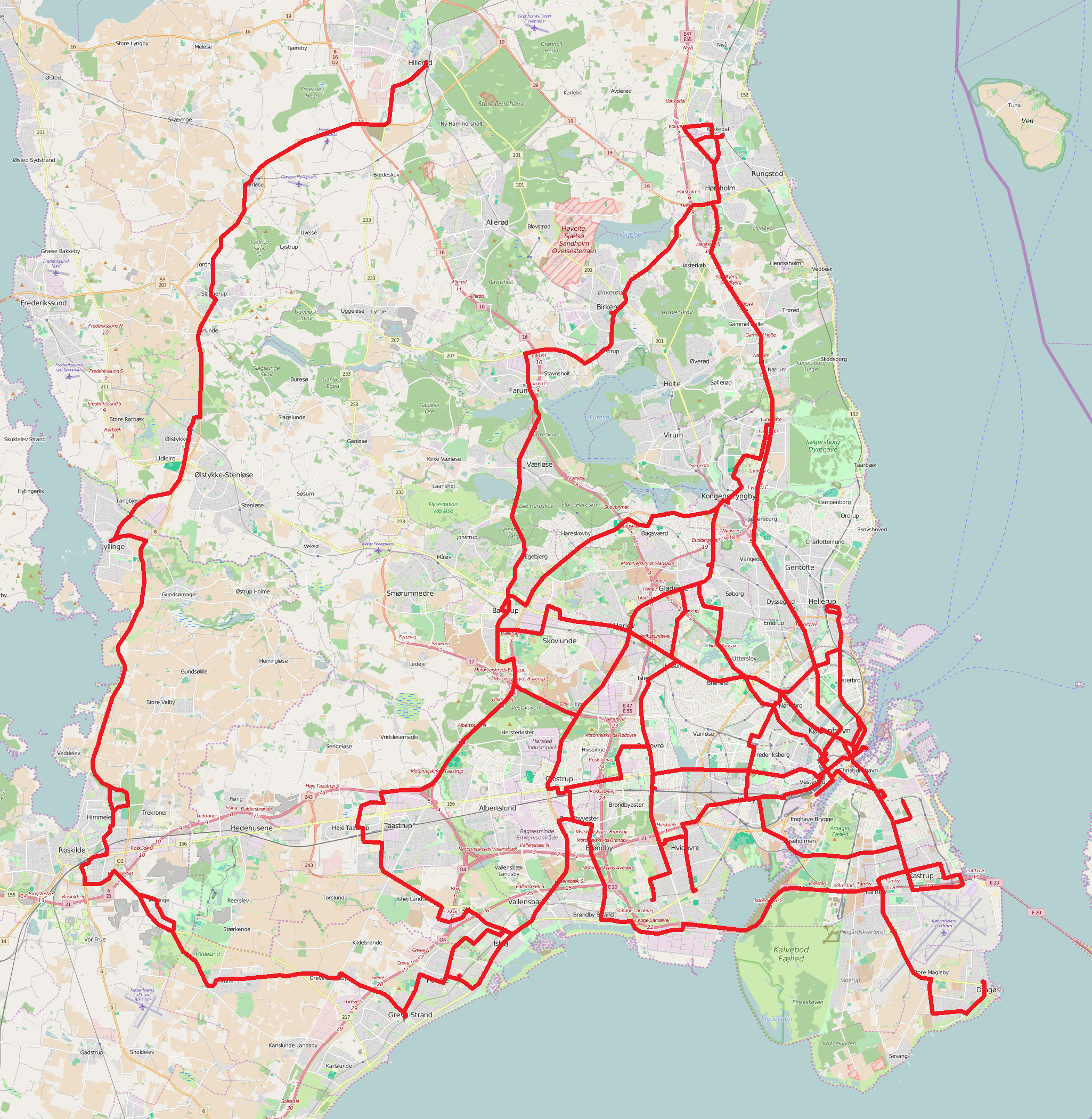 Map of the Copenhagen S-bus network as of October 2000 when it was at the largest. This map may be incomplete, and may contain errors. Don't rely solely on it for navigation.